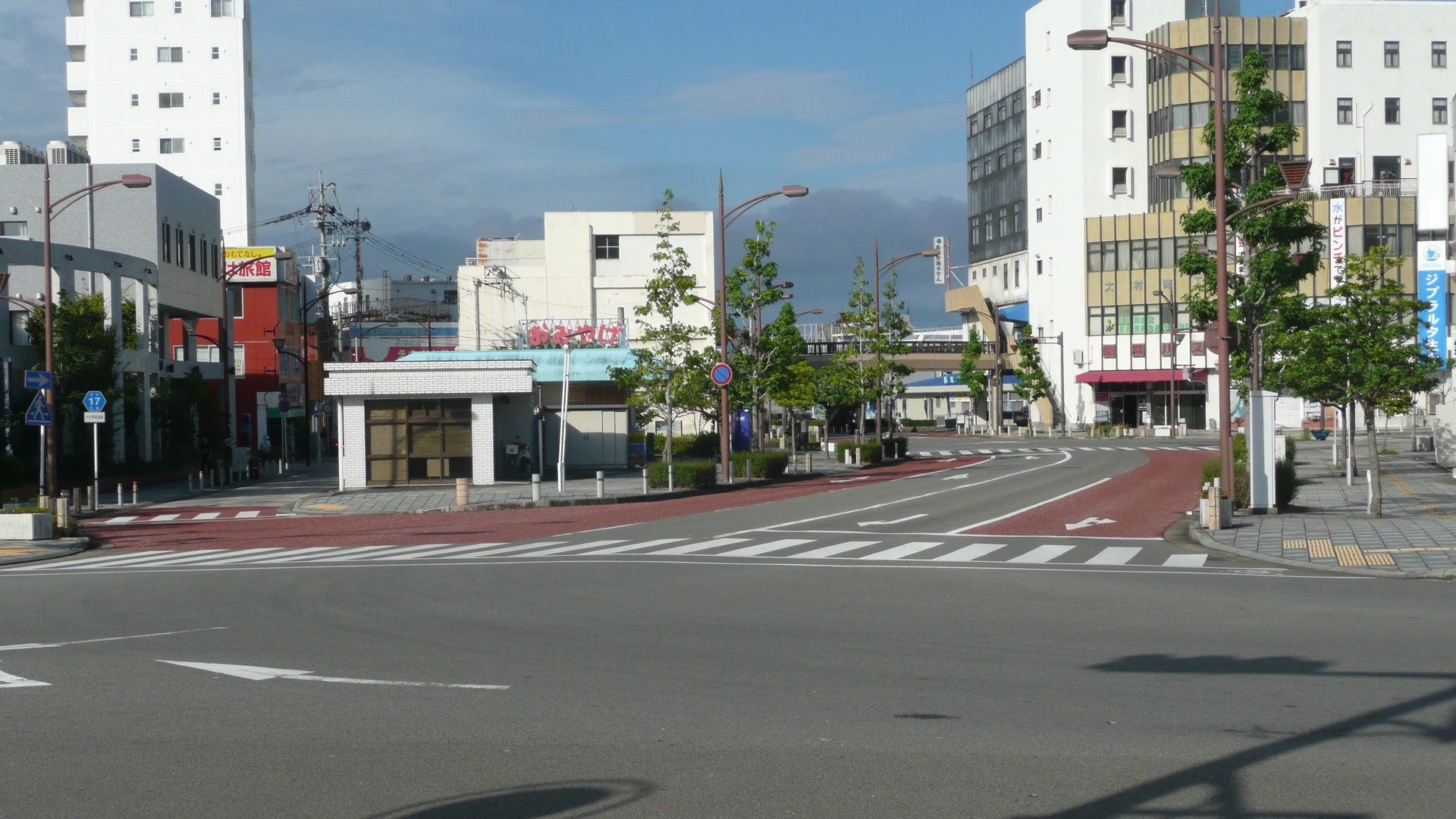 Nagasaki Prefectural Road 17 (Omura Station - Omura, Nagasaki, Japan)